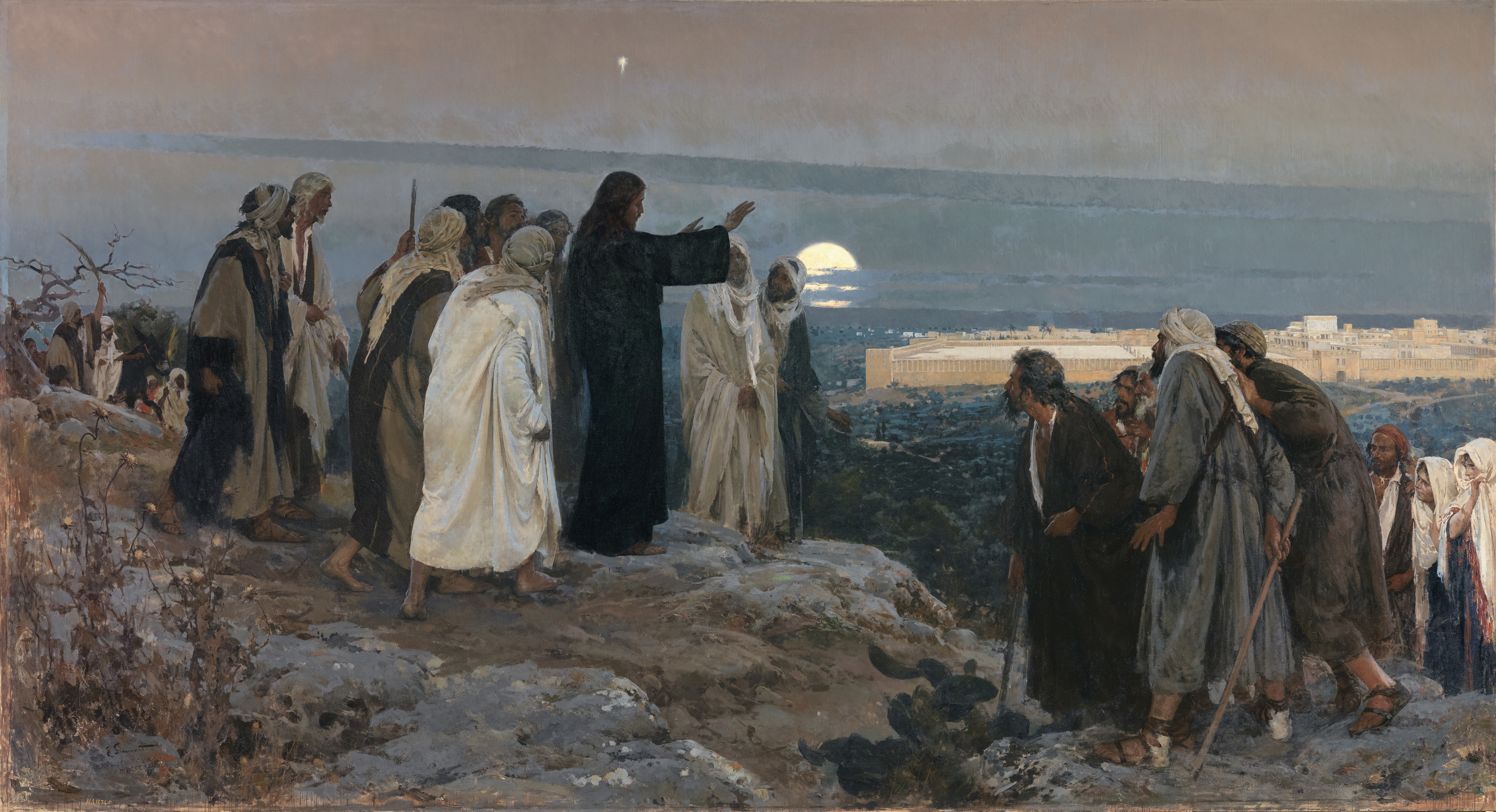 According to the 19th chapter of the Gospel of Luke, as Jesus approaches Jerusalem, he looks at the city and weeps over it (Luke 19:41) (an event known as Flevit super illam in Latin language), foretelling the suffering that awaits the city. The event took place on the Mount of Olives, on the background the Second Temple.